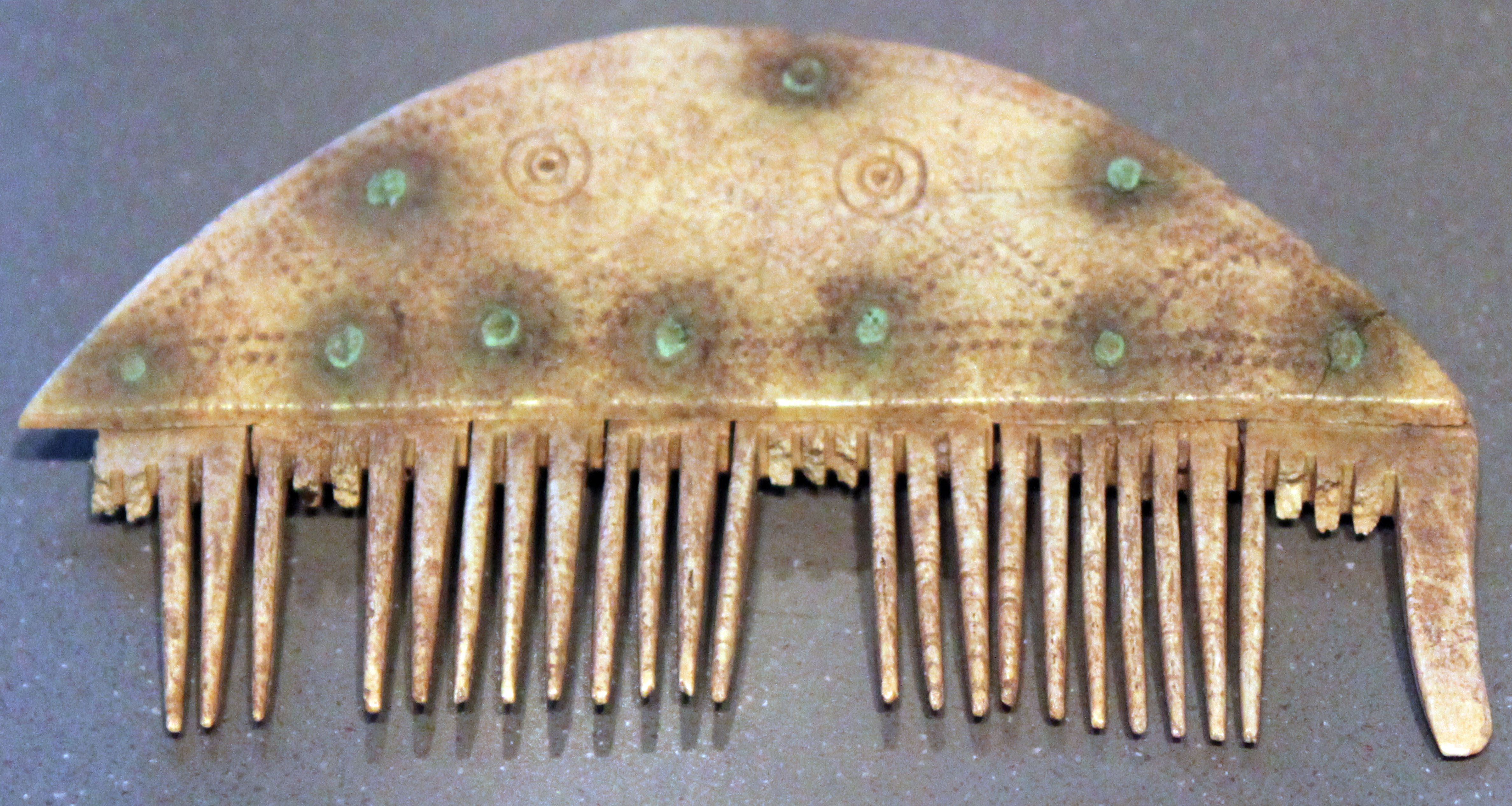 Comb from an east germanic cemetery (Elbing, polish name Elbląg); beginning of 4th century; Neues Museum Berlin, Germany